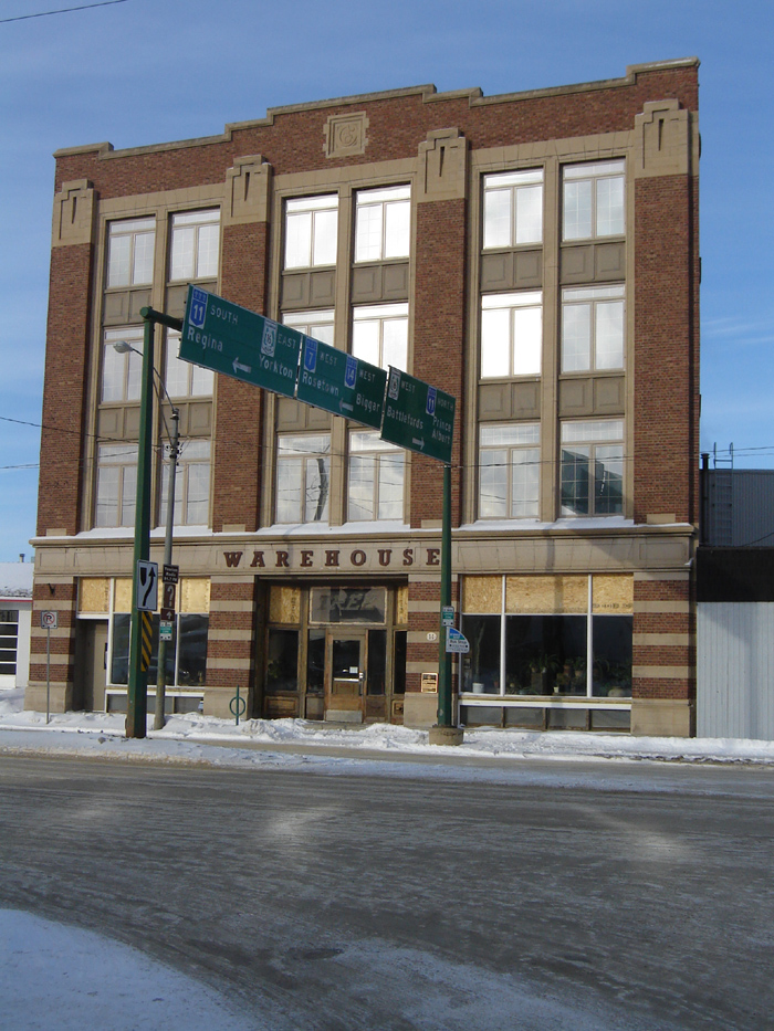 Municipal Heritage Properties: Fairbanks Morse Warehouse Central Business District , Core Neighbourhoods SDA, Saskatoon, Saskatchewan, Canada